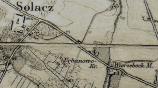 Urbanowo, Poznan. Old Map.